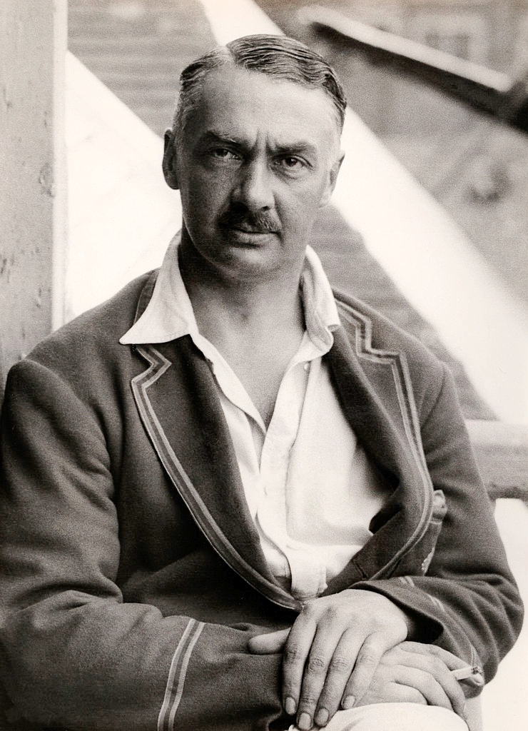 Middlesex and England cricketer Frank Mann, circa 1924.